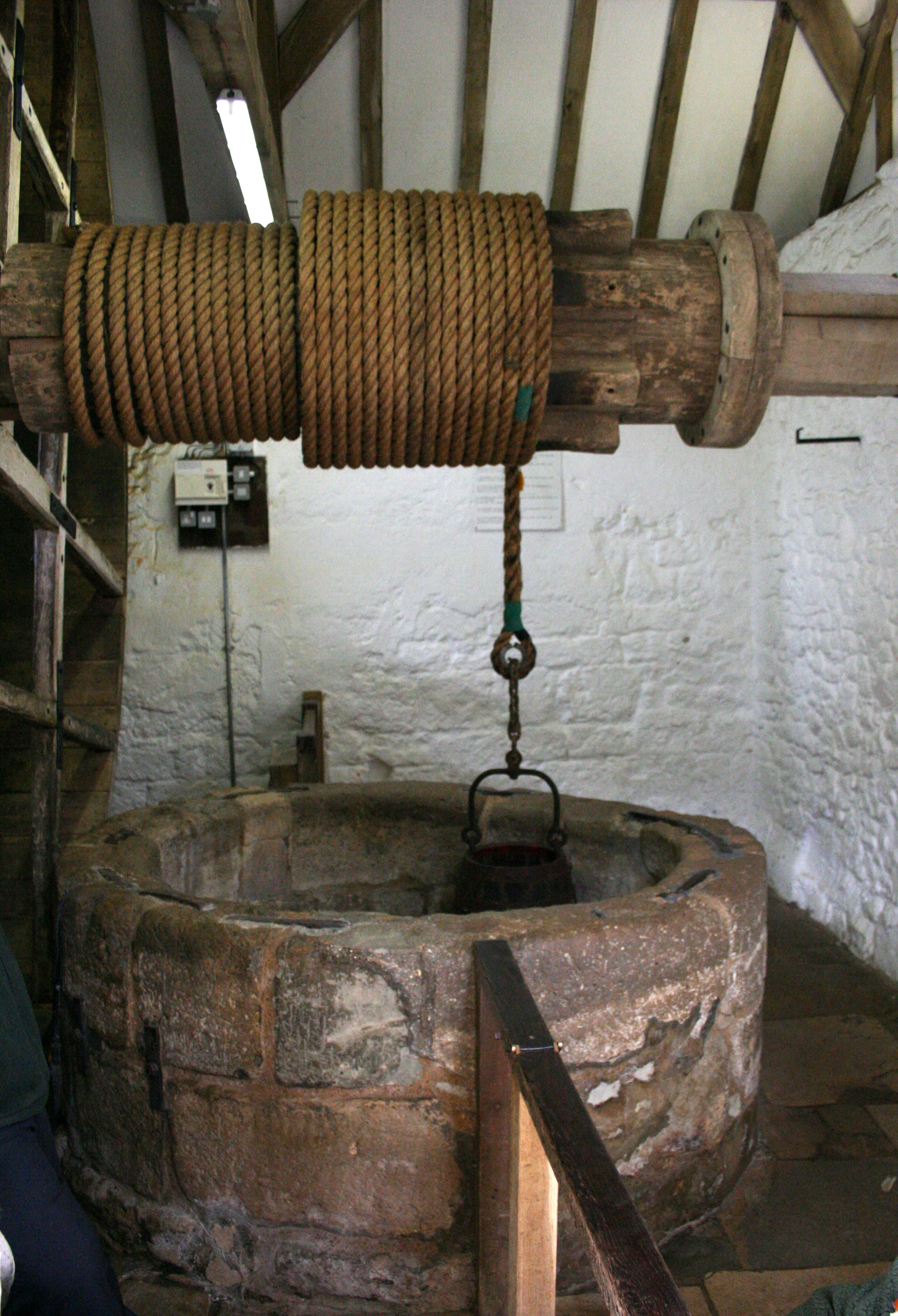 Interior of well house at Carisbrooke Castle